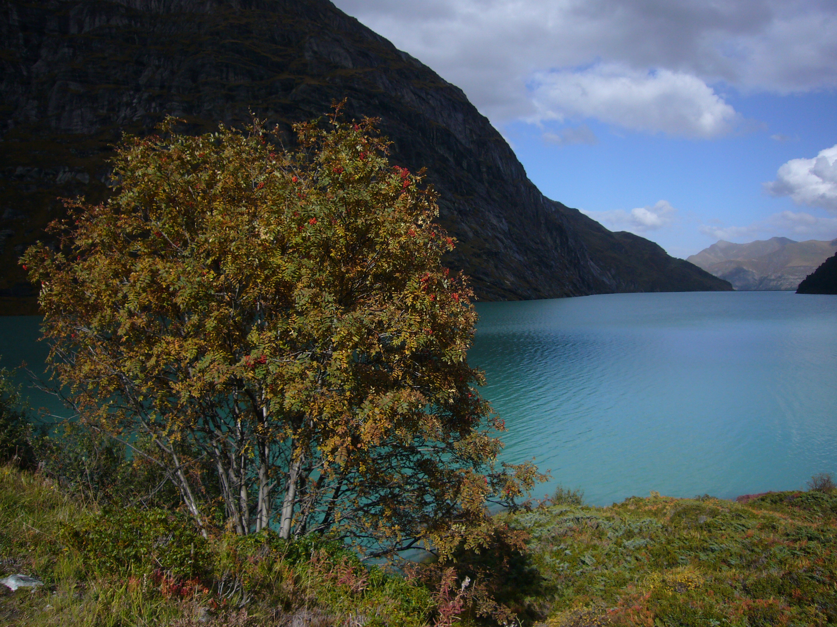 Lake Zervreila at 1900 meters above sea level with a Sorbus Aucuparia (commonly called rowan or mountain-ash)